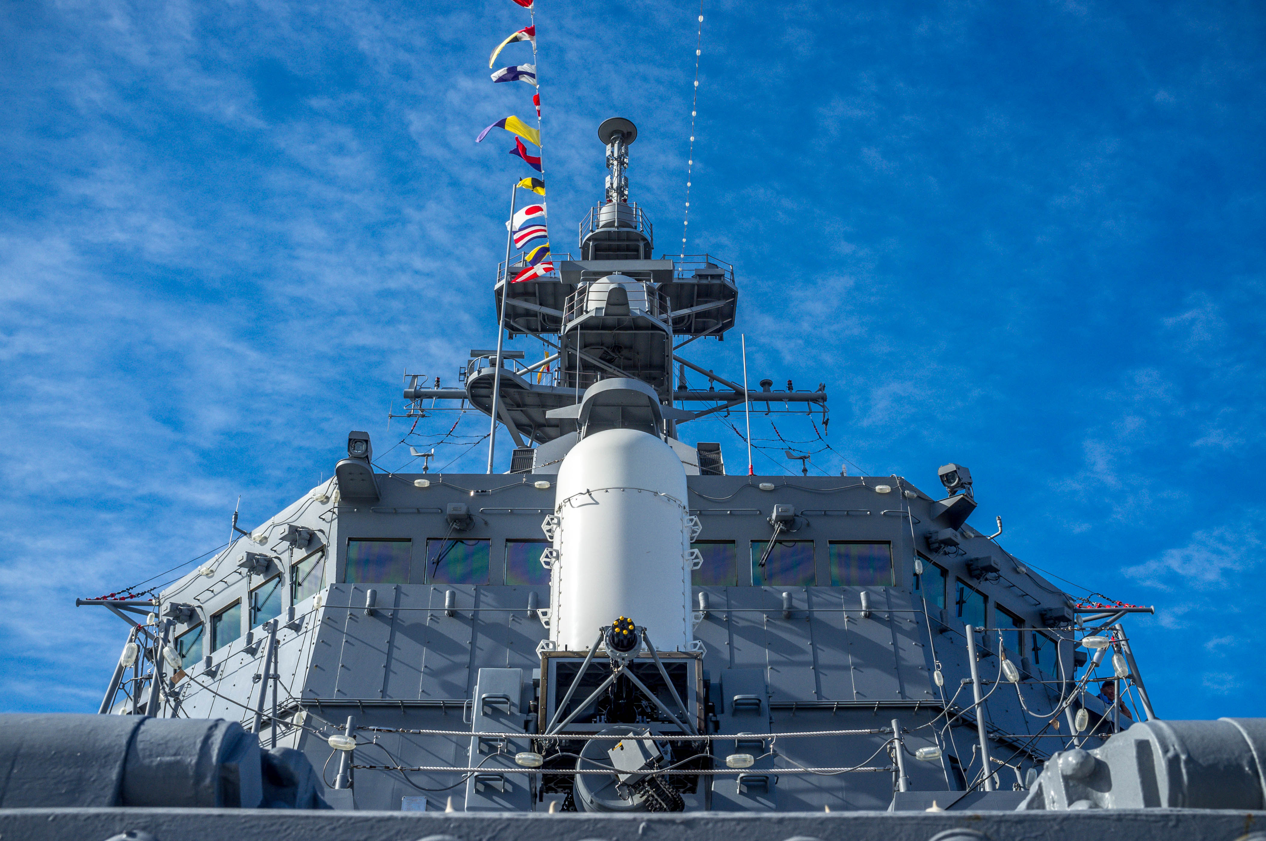 JS Makinami (DD-112) Weapons Phalanx CIWS